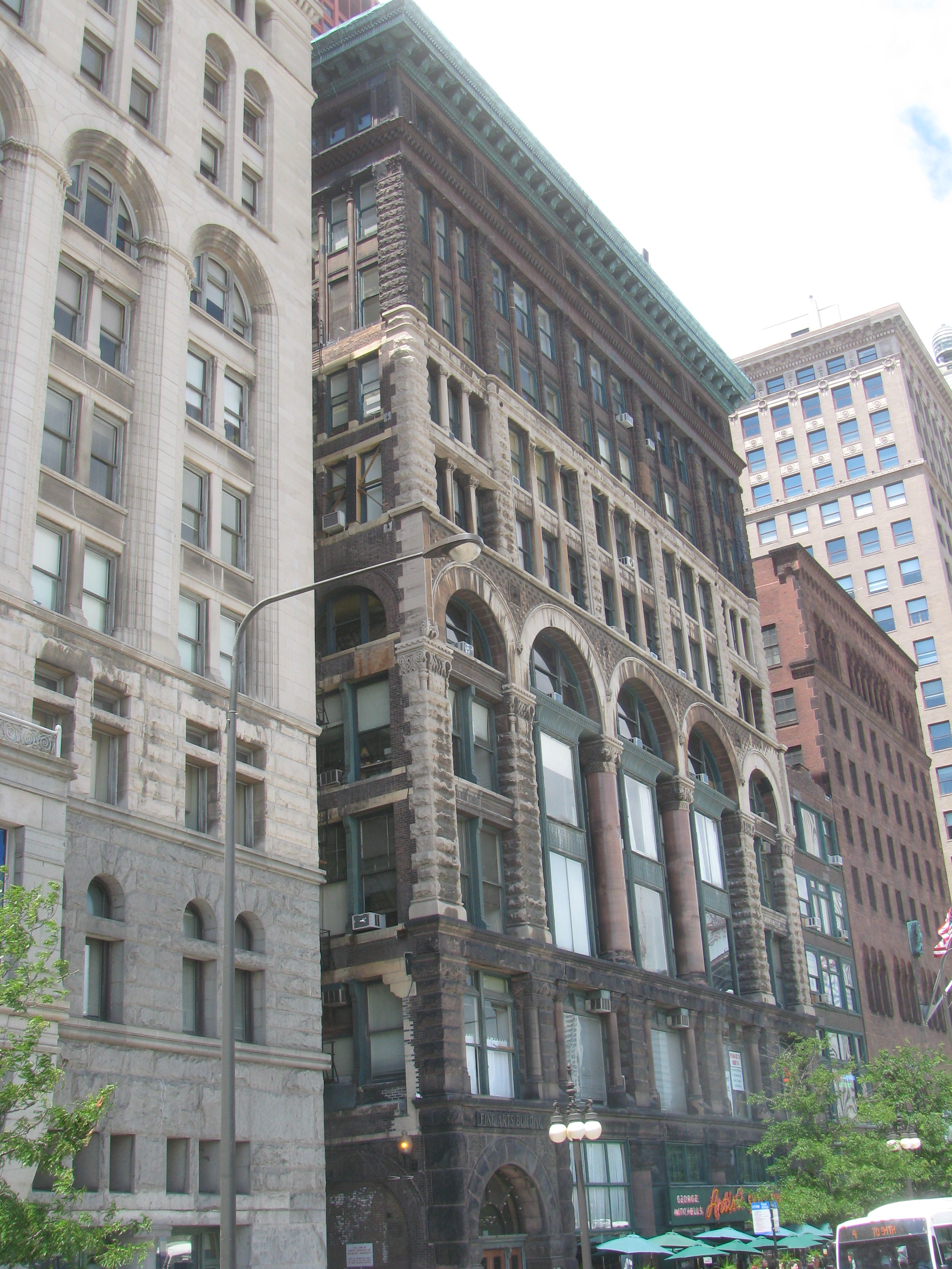 Studebaker_Building